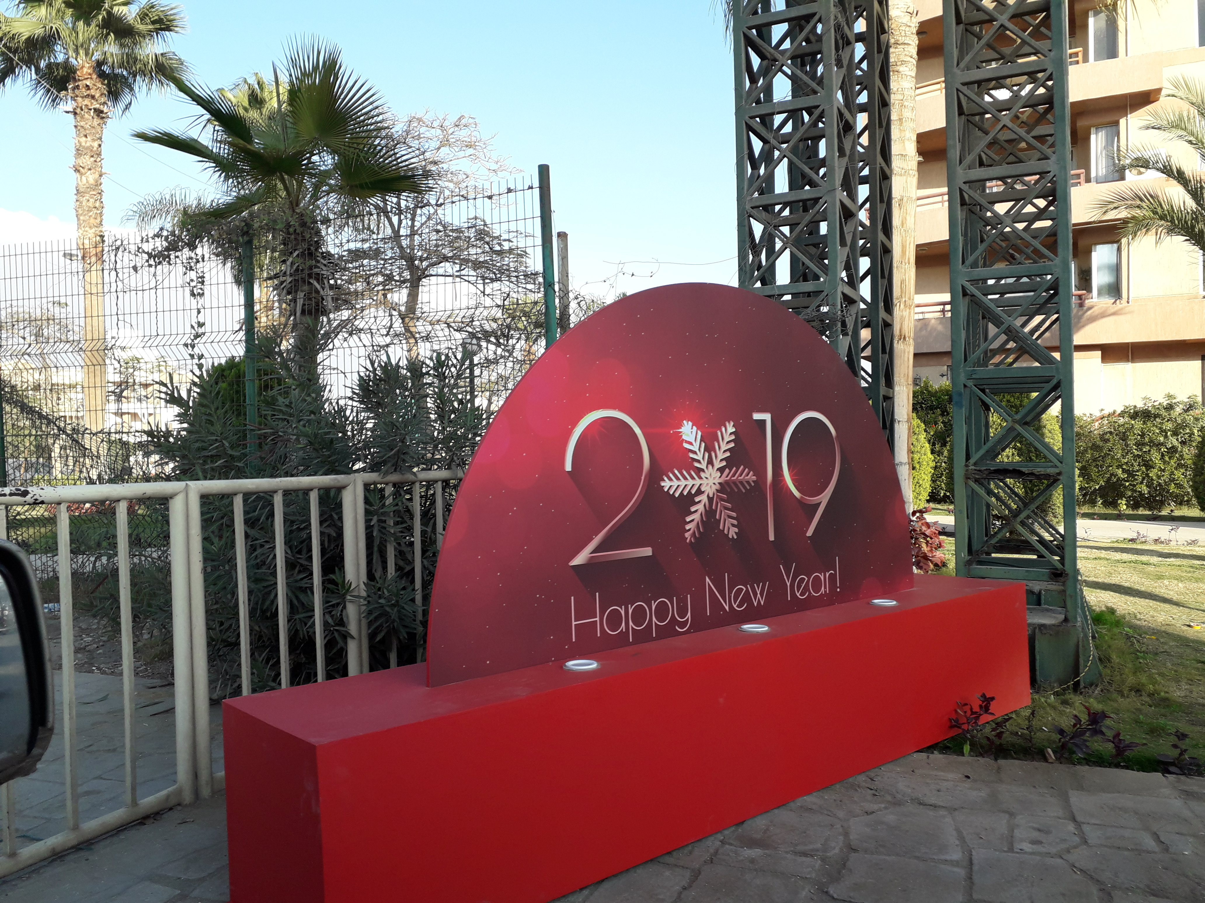 New Year celebrations in Al Rehab City